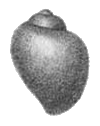 Drawing of abapertural view of a shell of Bulinus jousseaumei.